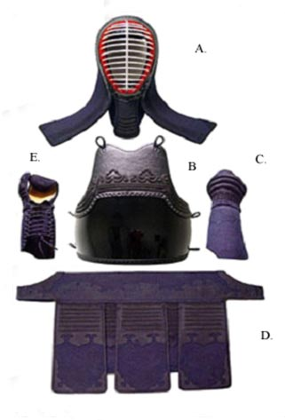 This plate identifies the six piece of modern Kumdo armor with the exception of the scarf which is worn over the scalp inside of the helmet.